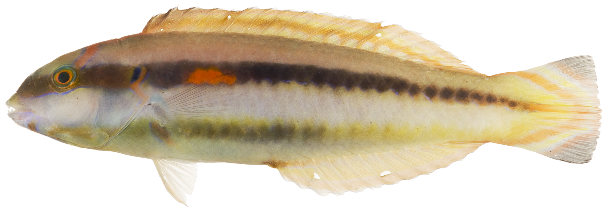 Halichoeres bivittatus (Bloch, 1791)—slippery dick, 103.0 mm SL, terminal male color phase, with a distinctive red blotch on the side of the body above the pectoral fin. Photo by JT Williams.